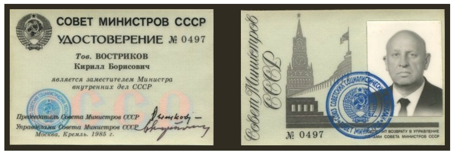 Identity cards / Document of the Deputy Minister of internal Affairs of the Soviet Union (1985)